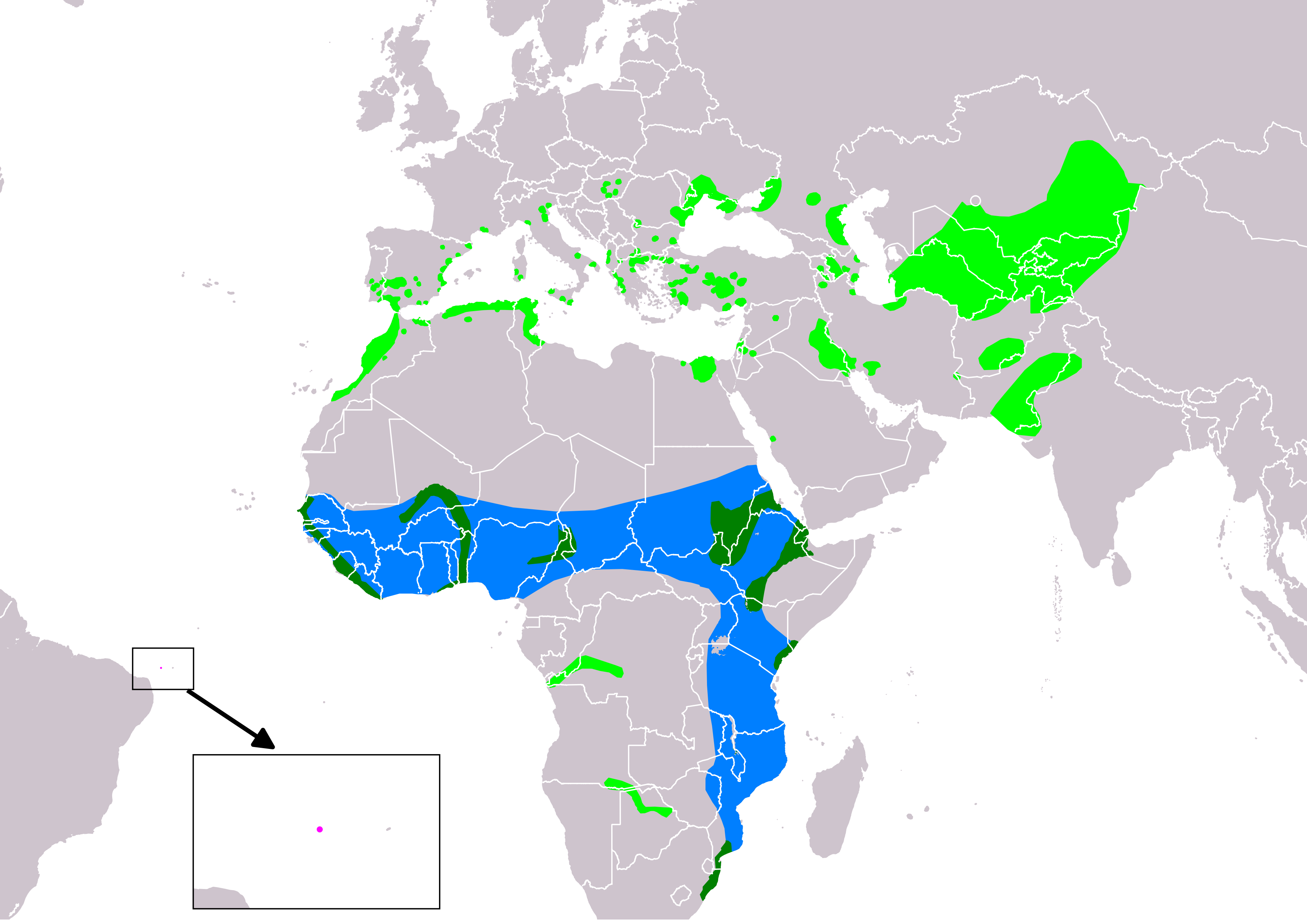 Map of collared pratincole (Glareola pratincola) according to IUCN version 2018.2 , Legend: Extant, breeding (#00FF00), Extant, resident (#008000), Extant, non-breeding (#007FFF), Extant & Vagrant (seasonality uncertain) (#FF00FF)